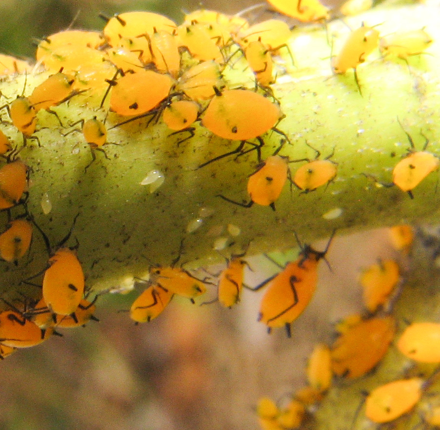 Perilampidae larvae and Aphis nerii on common milkweed. Schuylkill Nature Center, Philadelphia County, Pennsylvania, USA.